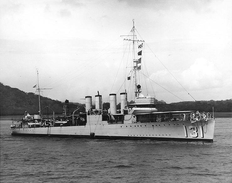 The USS Buchanan off Balboa, in the Panama Canal Zone, May 18, en:1936. Official United States Navy Photograph, from the collections of the Naval Historical Center.